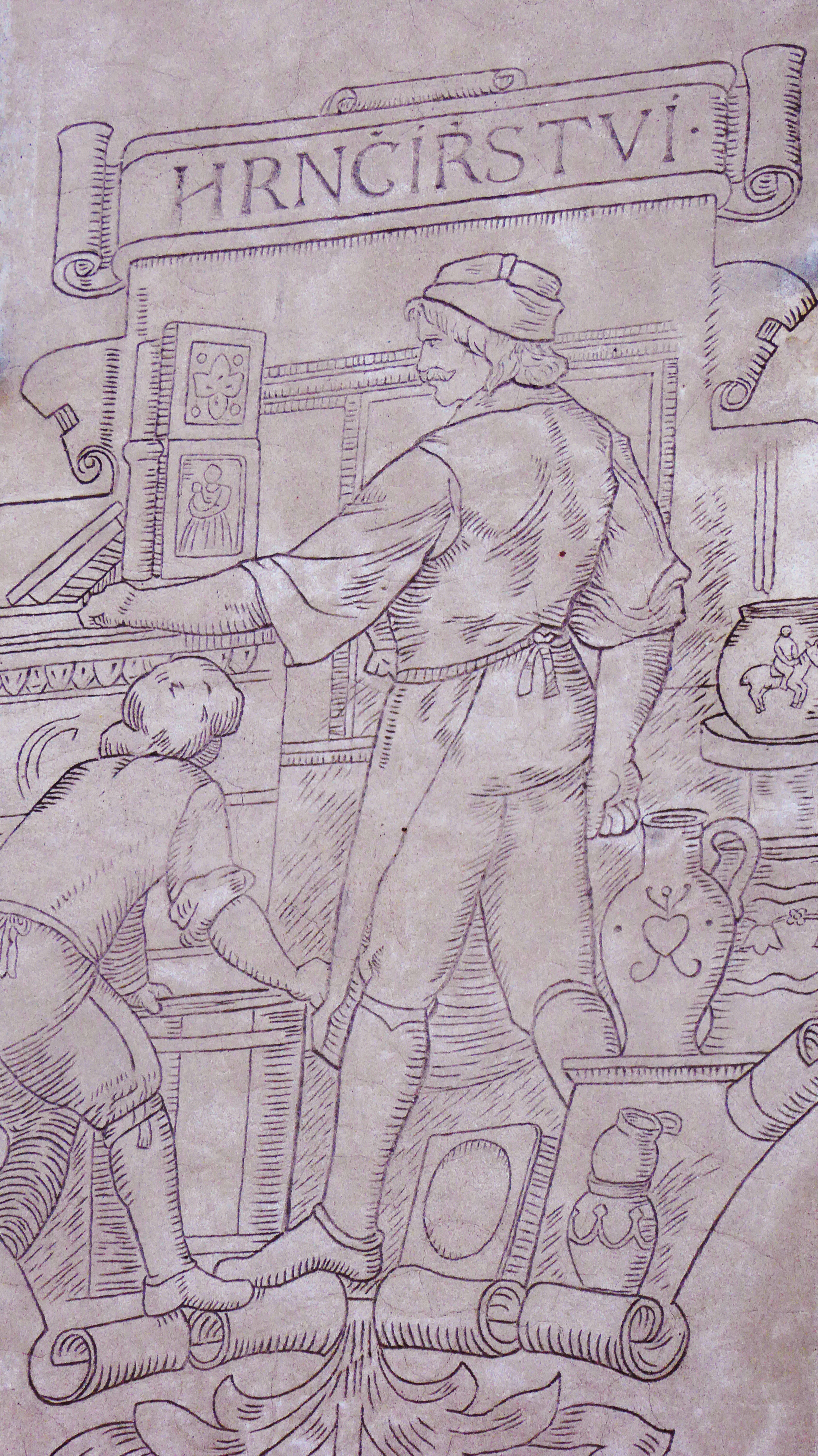 Pottery is the name of a part of the scene from the history of the city on a house built in 1904 in "Hlinsko". The house stands in to U tvrze street, on the corner of "Poděbradovo" Square. The author of the project was architect Ladislav Skrivanek, sgraffito on the facade was the work of academic painter Ladislav Novák. On the house are scenes from Czech history and town Hlinsko history. The house was built for doctor of medicine "Čeněk Ježdík (1860-1930)", in town "Hlinsko" since 1898, in 1903-1919 the mayor of the town, hence the name "Ježdíkův" house. Photo-location: Czechia, Pardubice Region, Hlinsko, "Poděbradovo" square, "Kameničská" Highlands".